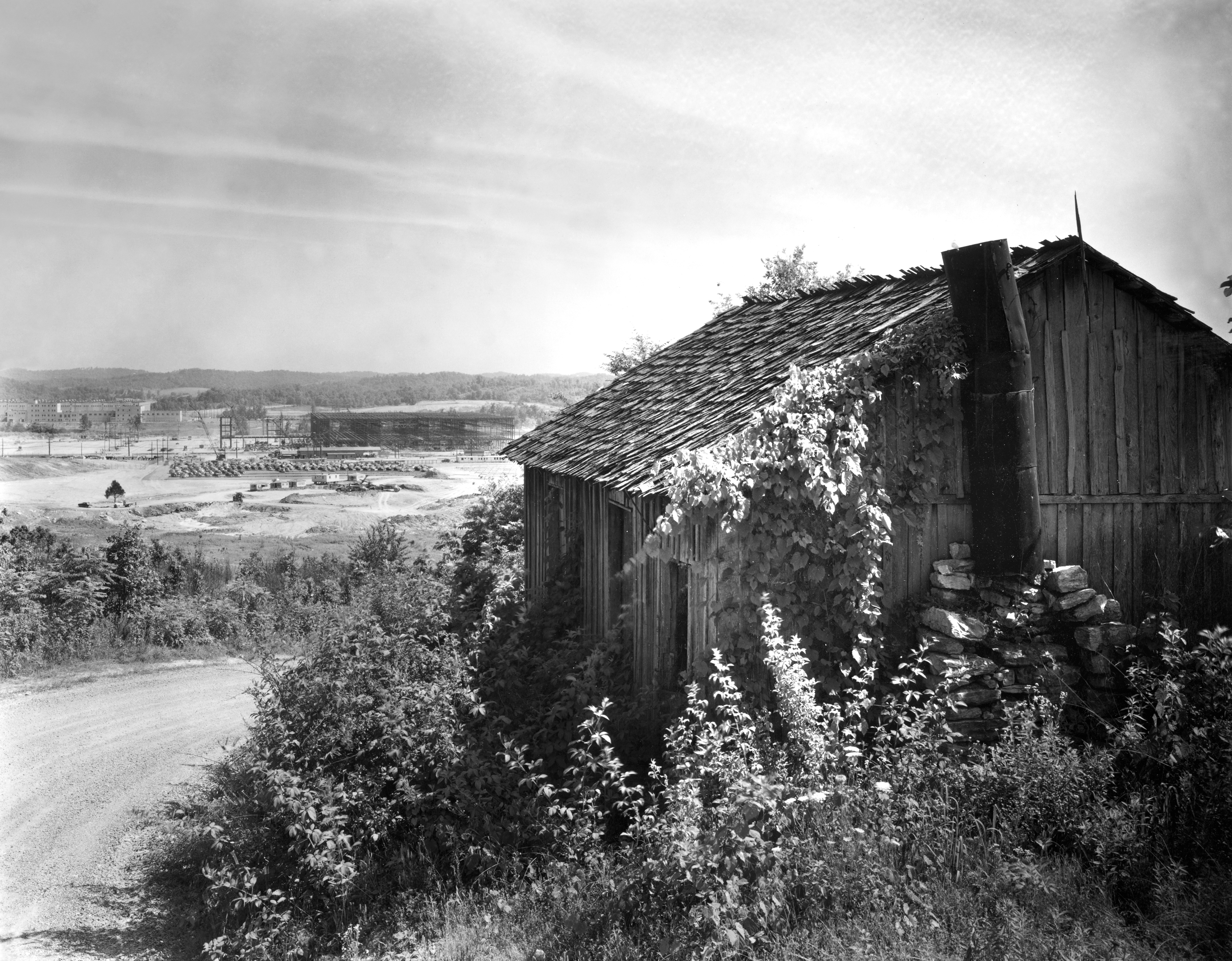 MED 245 file # 31 1942 Early Construction K-25 plant with once of original houses on Oak Ridge area